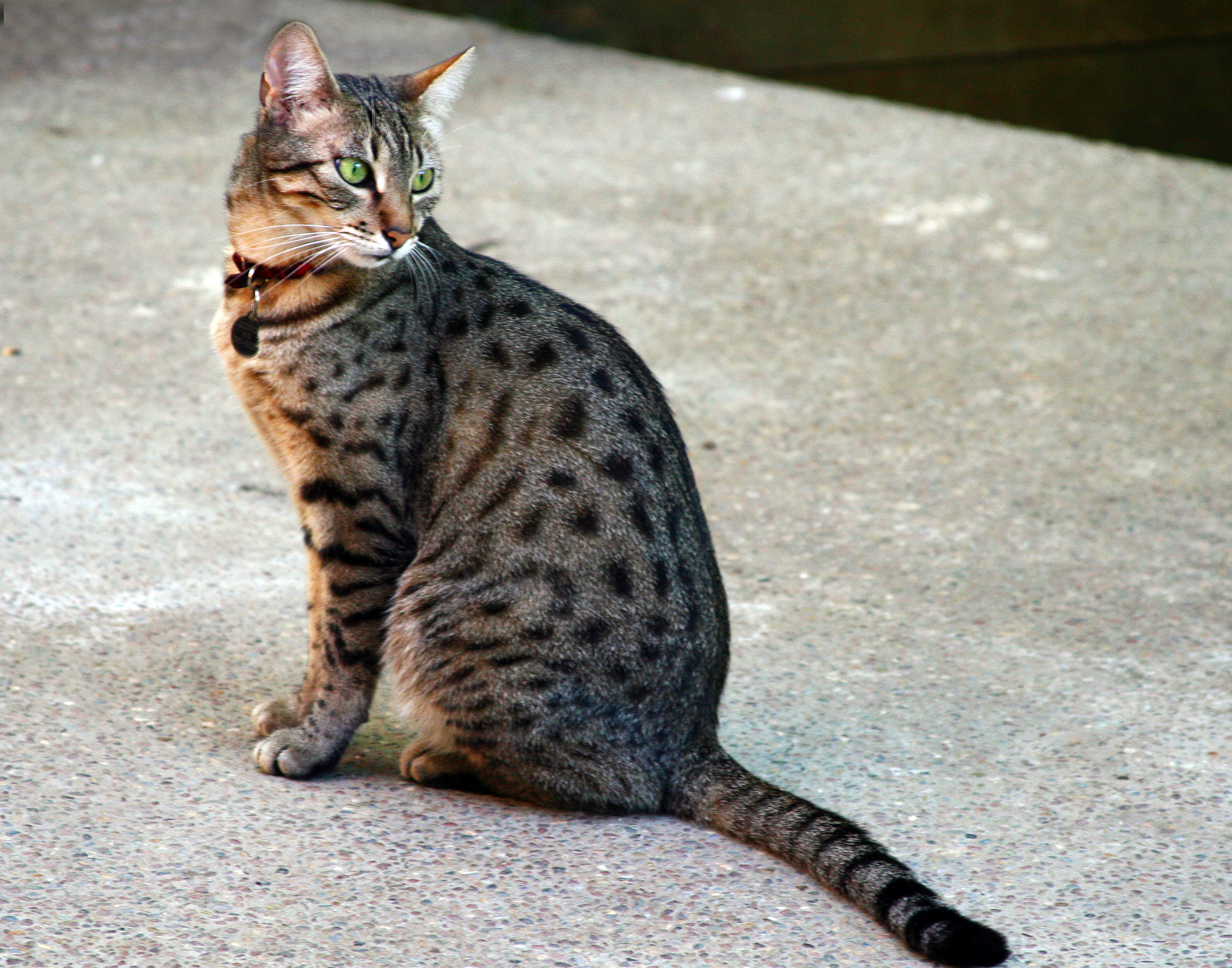 Bronze colored Egyptian Mau cat